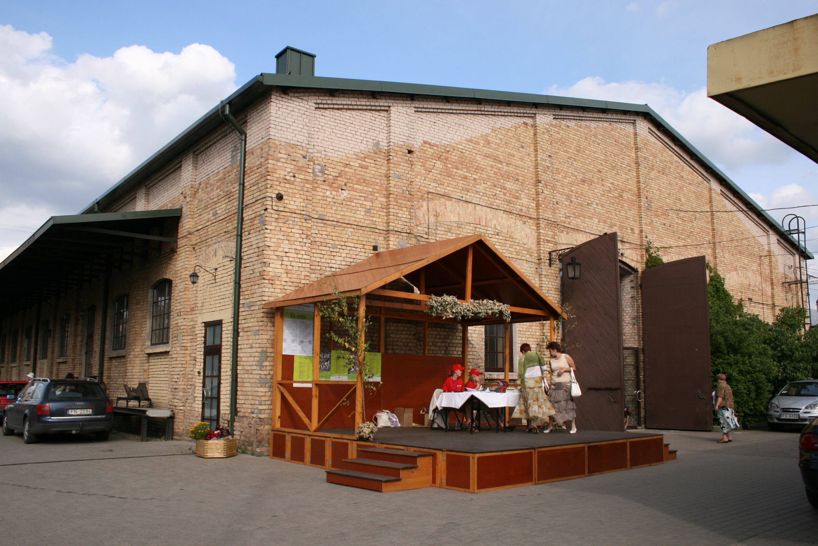 Latvian Railway History Museum.